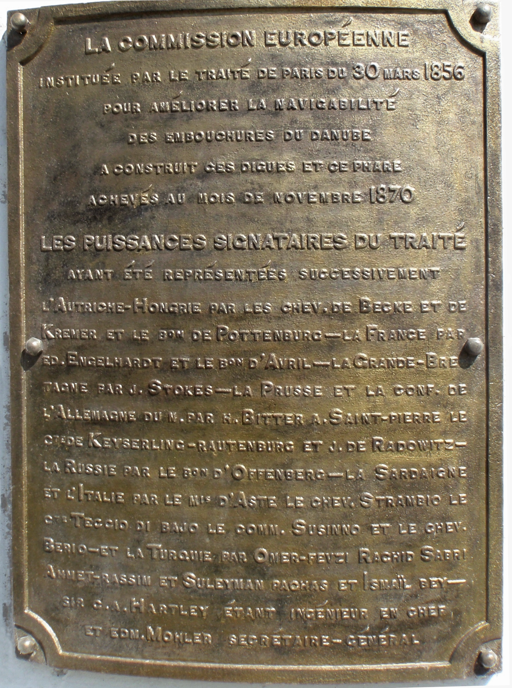 Information on the wall of the lighthouse in Sulina, Tulcea county, Romaniai